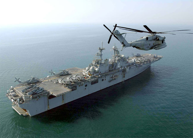 The USS Boxer (LHD-4)